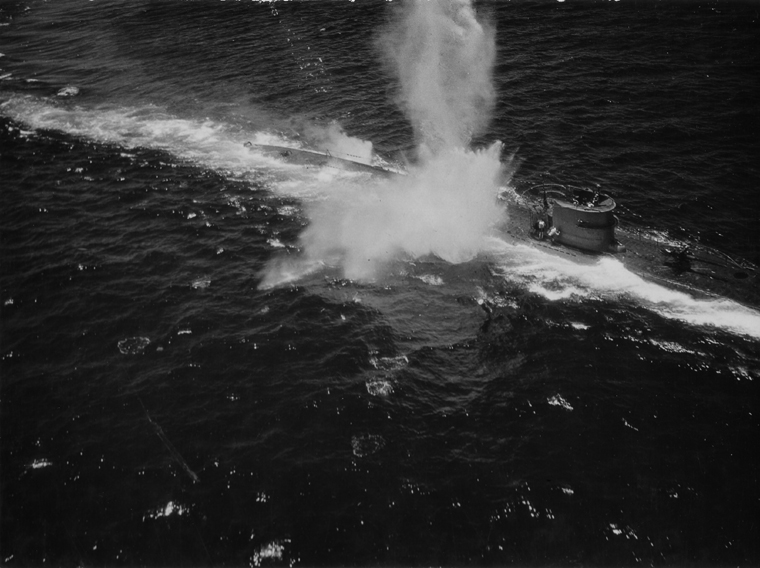 Aircraft from USS Bogue attack U-118.